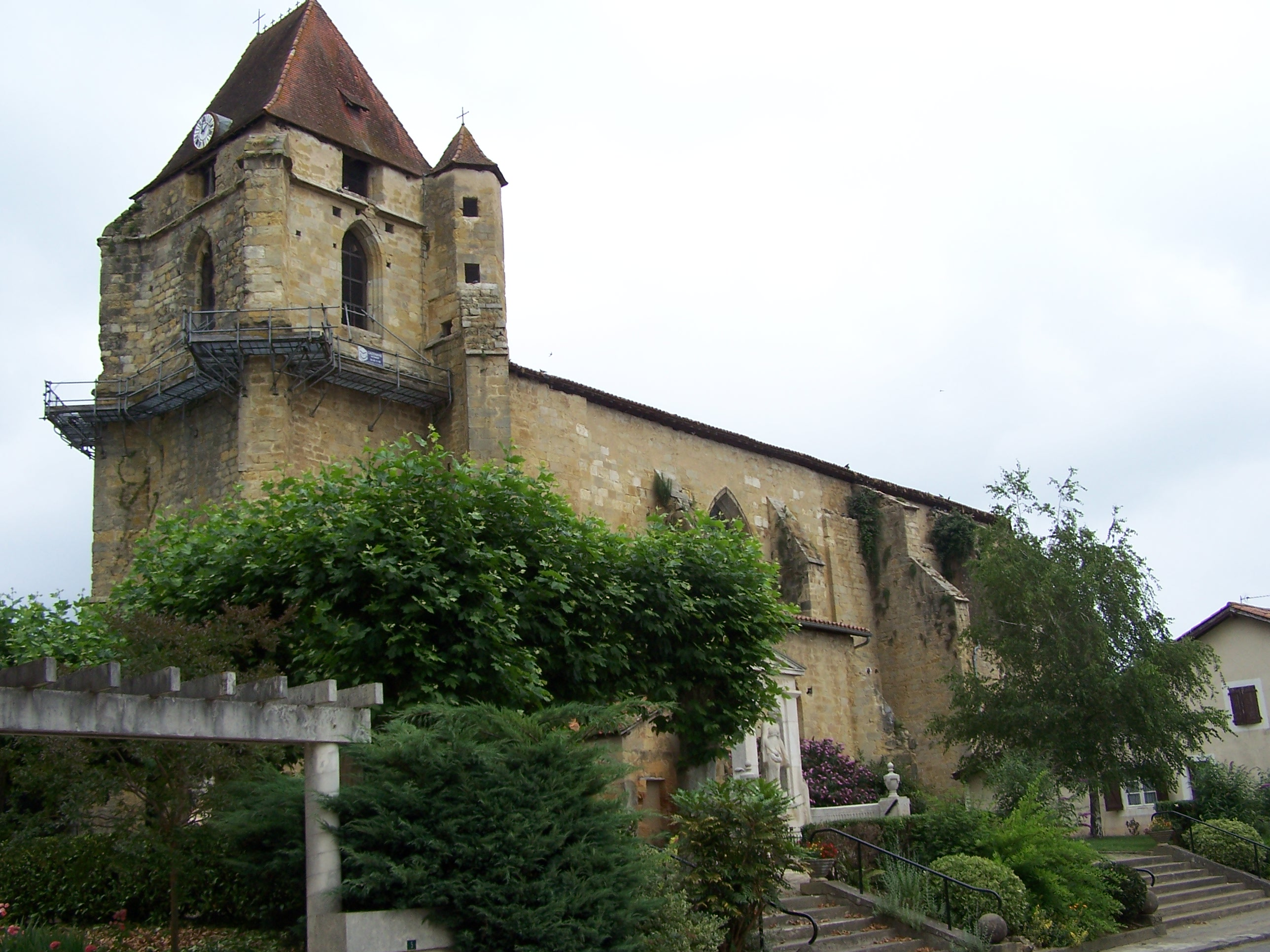 Church of Geaune (Landes, France)